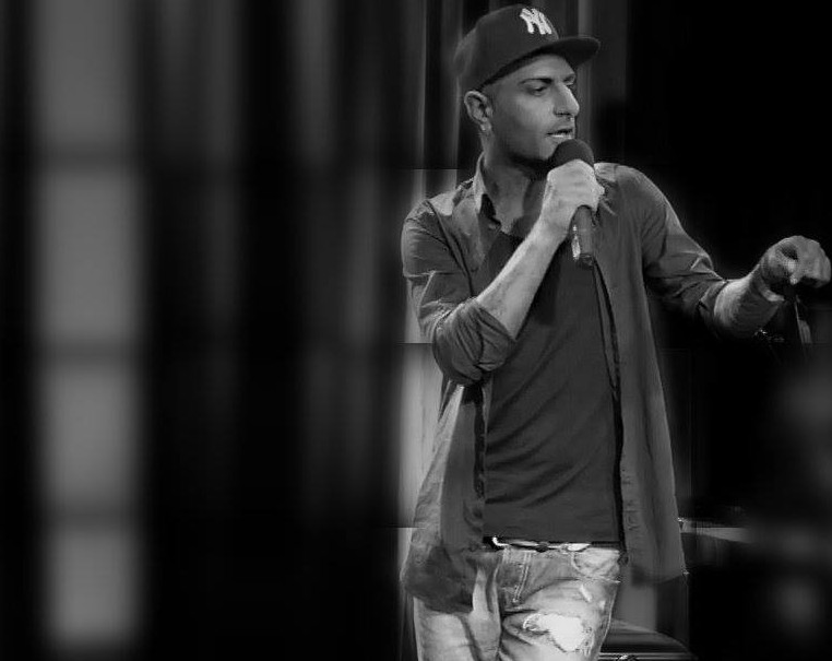 Portrait of the Iranian-German Autor, music producer and DJ Imaani Brown